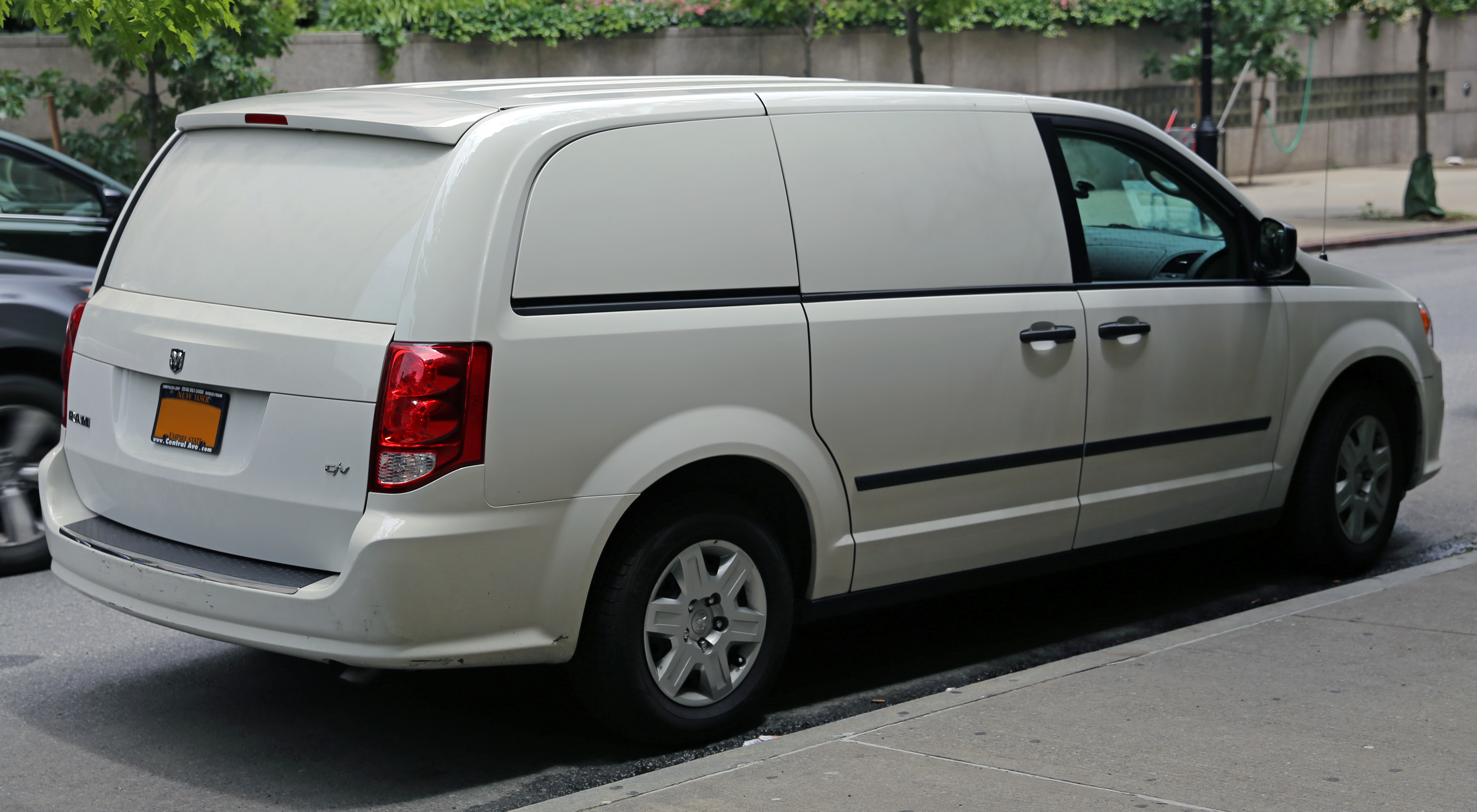 2012 Dodge Ram C/V (Cargo Van), rear view. 3.6 litre V6, built in Canada.